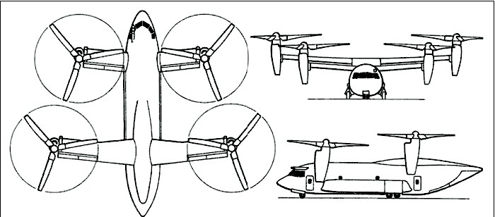 Schema del Bell QTR